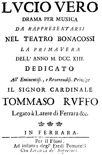 Tomaso Albinoni - Lucio Vero - titlepage of the libretto - Ferrara 1713